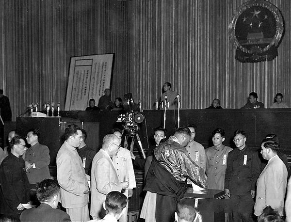 Members were voting for the Constitution of the People's Republic of China at the 1st National People's Congress on September 20, 1954. 中文（中国大陆）: 1954年9月20日，出席第一届全国人大一次会议的全国人大代表投票通过宪法。